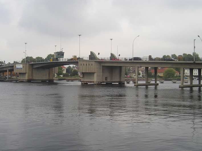 The "Porsgrunn bridge", Porsgrunn, Norway.